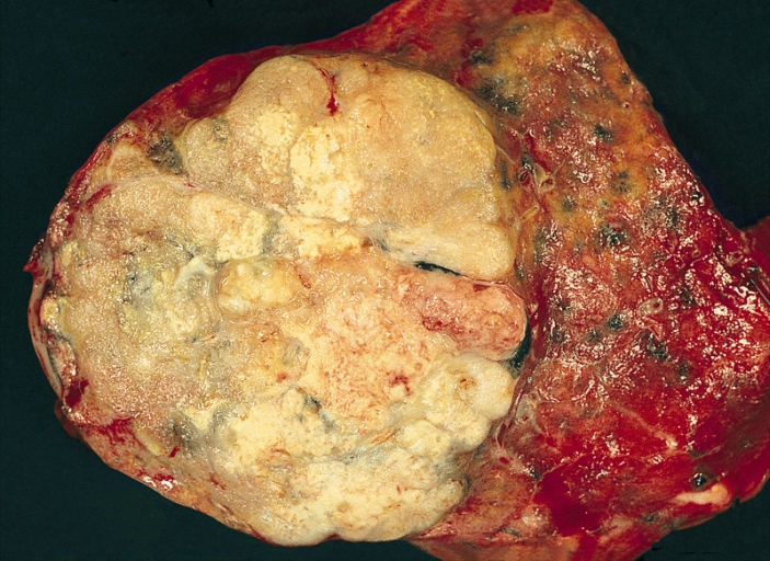 LOWER RESPIRATORY TRACT: ADENOCARCINOMA This lobectomy specimen shows a lobulated, somewhat glistening mass.